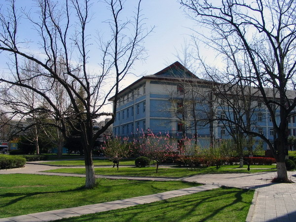 dorm